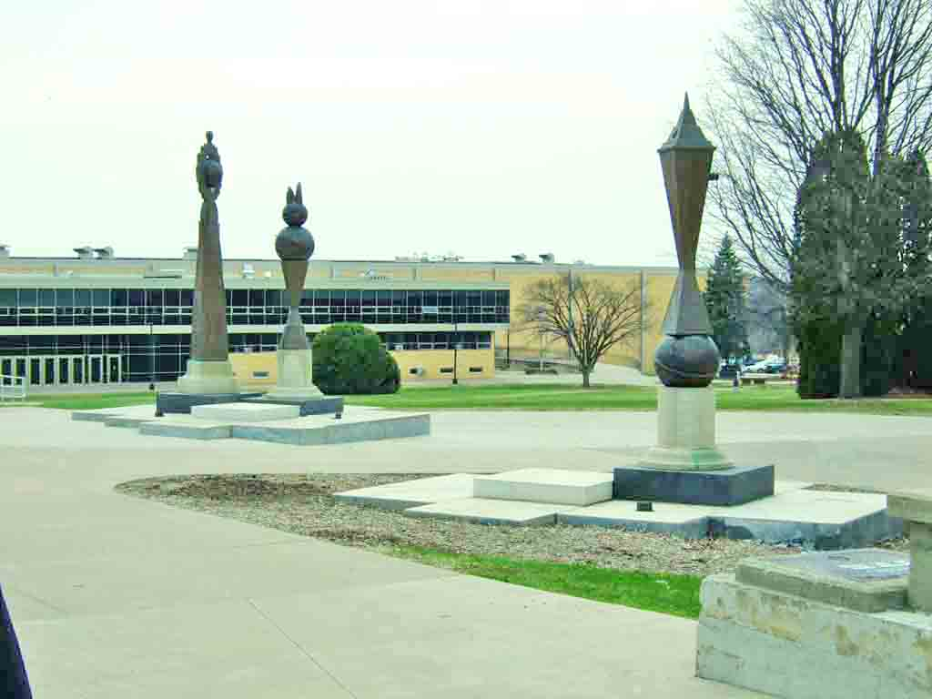 Sculpture ensemble "Stratagem" by Scott Walker